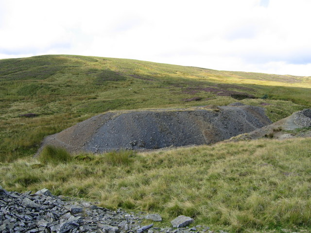 Cafartha (also Nantddu) Mine This is the prominent spoil heap from the Cafartha Mine engine shaft, which lies on the western side of the Nant Ddu about 1km SE of Glaslyn. The slopes of Banc Bugeilyn in the background. Cafartha Mine was worked for lead and copper in Victorian times over a period of 40 or 50 years, but its history is largely one of failure and lost investment.